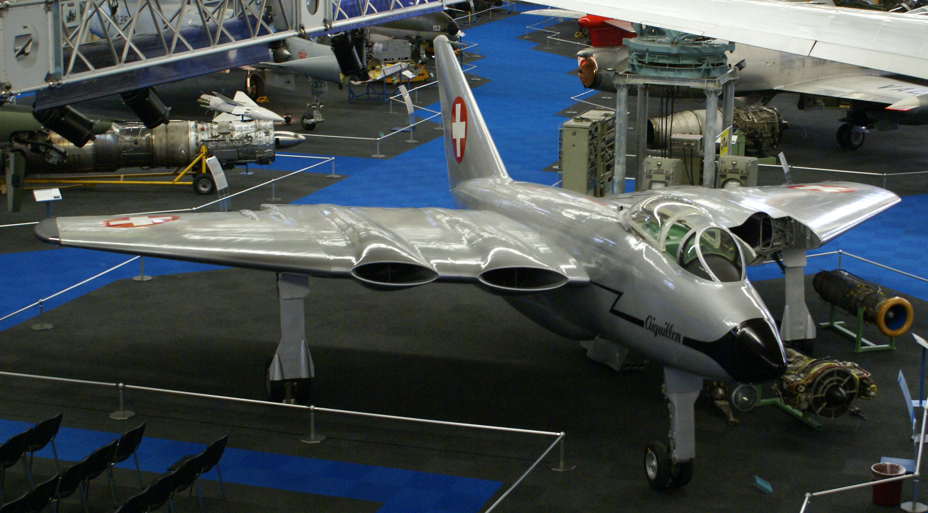 The sole prototype of the Swiss N-20.10 Aiguillon ("Sting") fighter-bomber aircraft developed in 1951 by Flug- und Fahrzeugwerke Altenrhein.